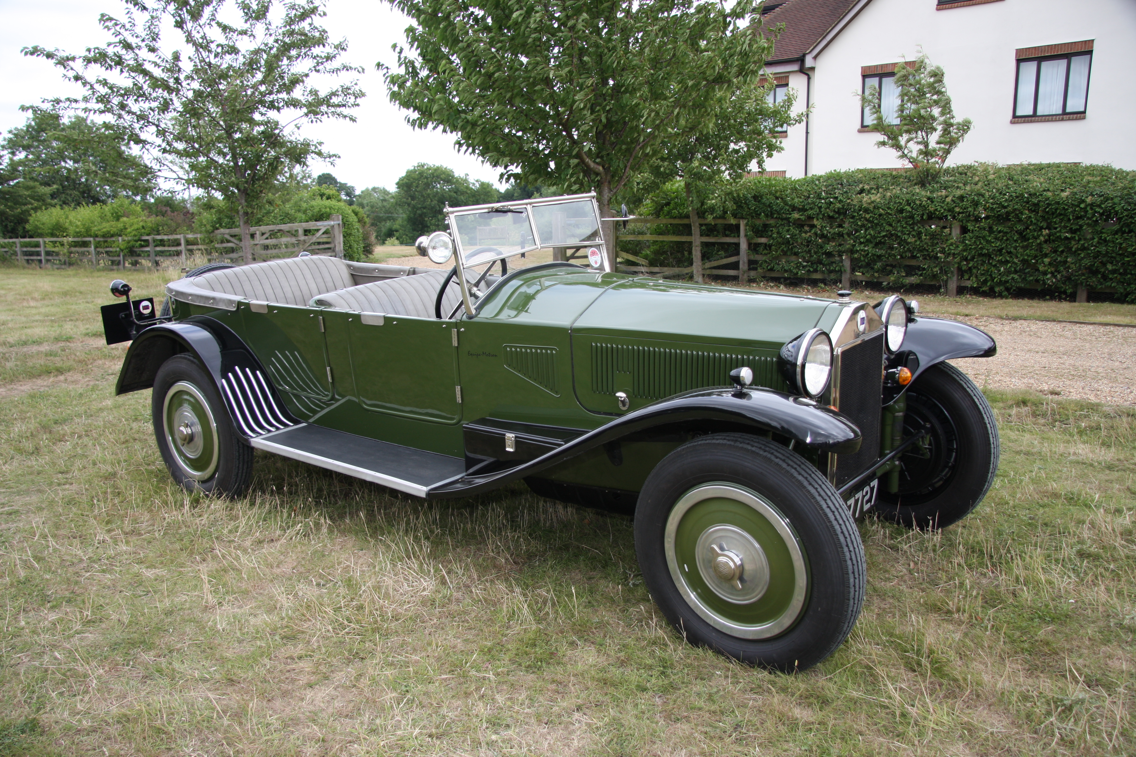 Lancia Motor Club AGM July 2010 Thame Oxford